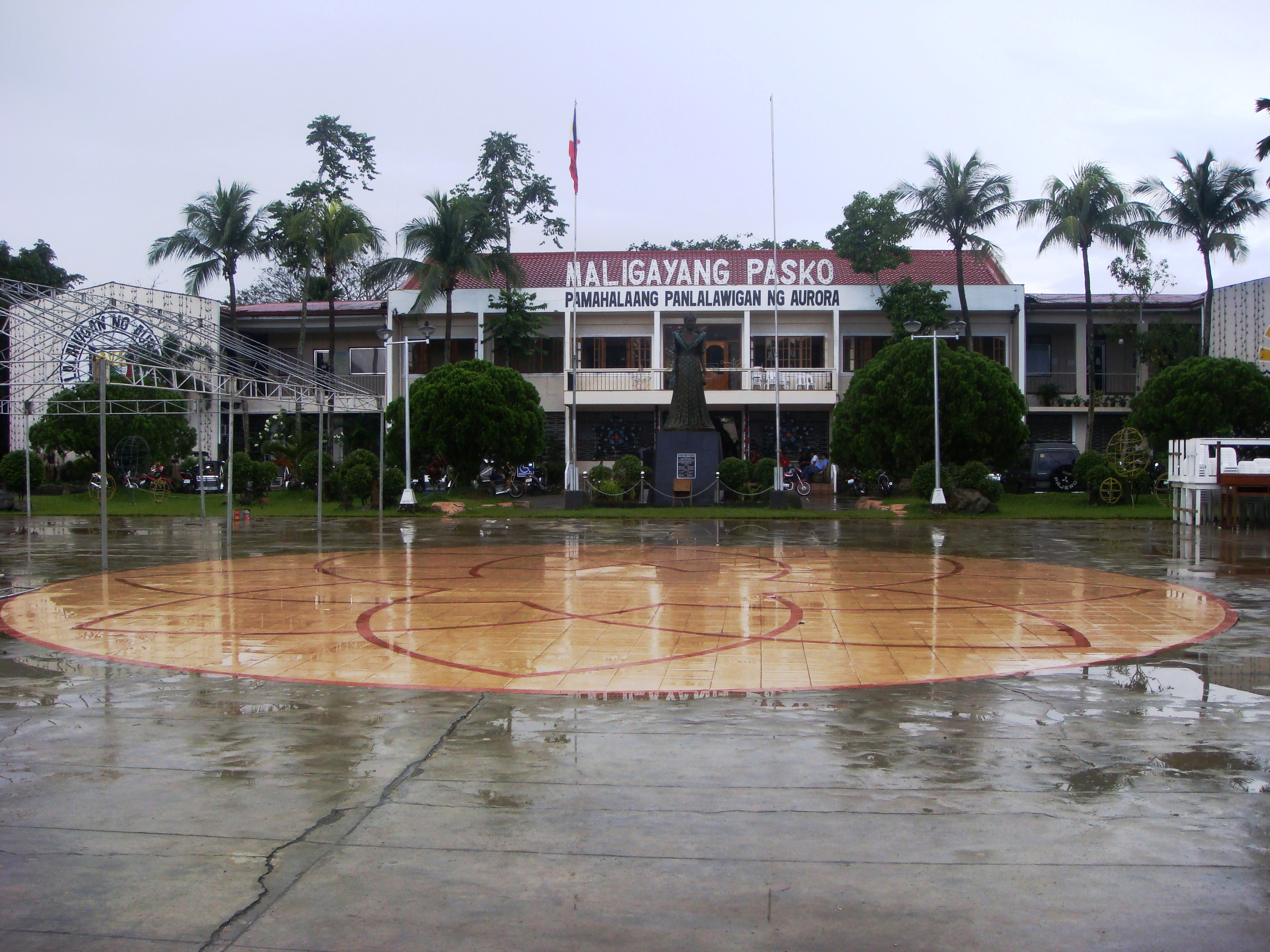 Pamahalaang Panlalawigan ng Aurora.